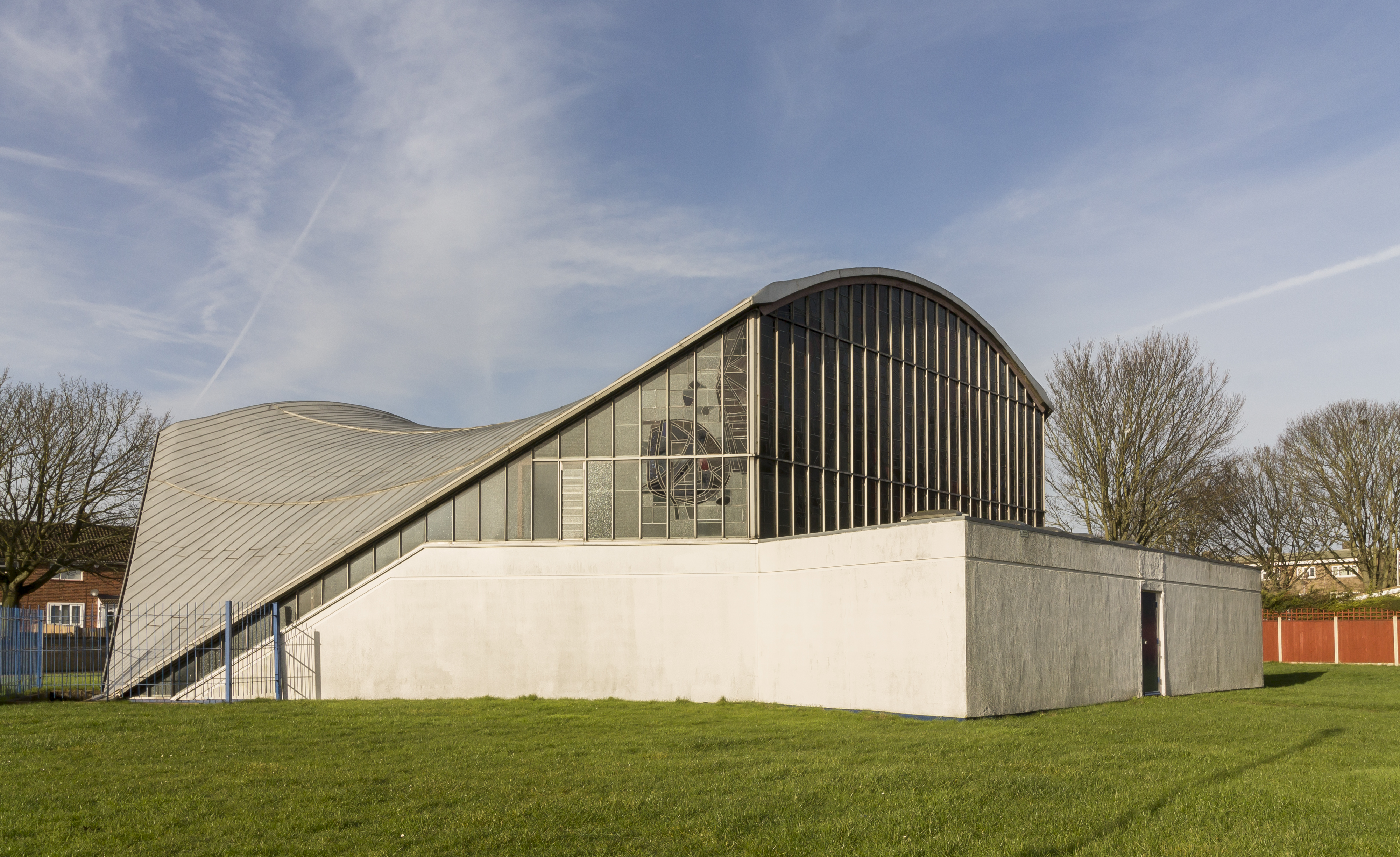 Pic by Jenny. The church dates from 1962 and was designed by the architect Sam Scorer, after plans for a parish church were initiated in 1959. The church cost £22,960. It is located on the Ermine estate which was built from the 1950s onwards. The church plan is based on a hexagram, and was designed that the congregation should be gathered round the altar during services. The church consists of a saddle like roof (hyperbolic paraboloid) which sweeps down to ground level north and south. There is clear glazing to the west, and to the east there is stained-glass by Keith New. The window, which is completely abstract, is based on a series of hexagonal shapes which echo the shape of the church in plan. The theme of the window is "Revelation of God's plan for Man's redemption". There is an entrance porch and toilets at the west end. There is also a vestry extension to the east. Inside the ceiling is of varnished wood with plain walls and a small glazed strip above. The pews form semicircles around the front of the sanctuary where the altar is on a slightly raised area. The floor slopes slightly down from the entrance to the font which is located in front of the altar. The font is constructed of reinforced concrete and is located in the exact centre of the building. The foundation stone lies at its base. Originally a bell tower or small chapel was planned at the back of the church, however this was not built due to lack of funds. Most money for the church was raised through schemes such as a "Buy a Brick" project. The building is a major contribution to church architecture of this period, combining innovative architectural thinking with advanced liturgical planning, and a complete set of original fittings, including artist-designed stained glass and metalwork of high quality.